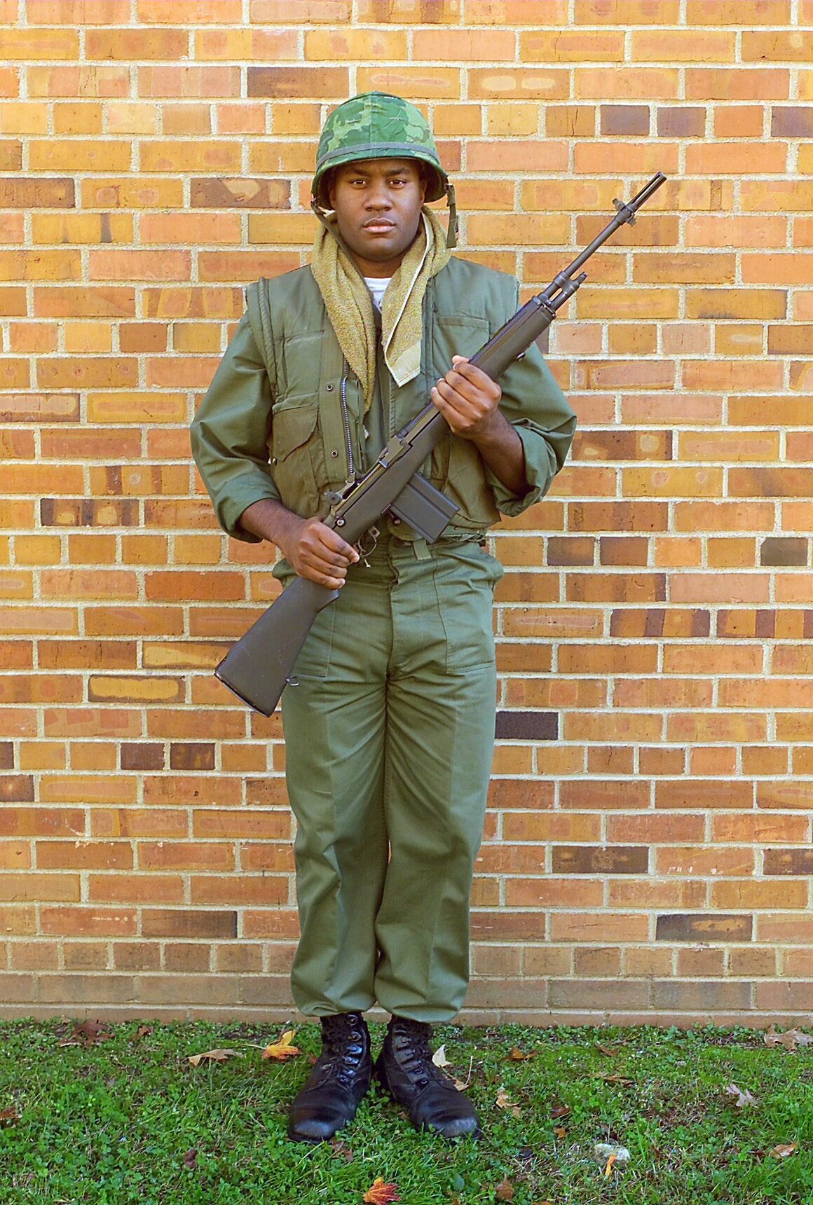 In celebration of the 228th Marine Corps birthday, a US Marine Corps (USMC) marine wears a Vietnam War era uniform, holding a 7.62 mm M14 rifle, as part of the historical period uniform pageant, held aboard Marine Corps Base (MCB) Quantico. Location: Marine Corps Base, Quantico, Virginia, USA.